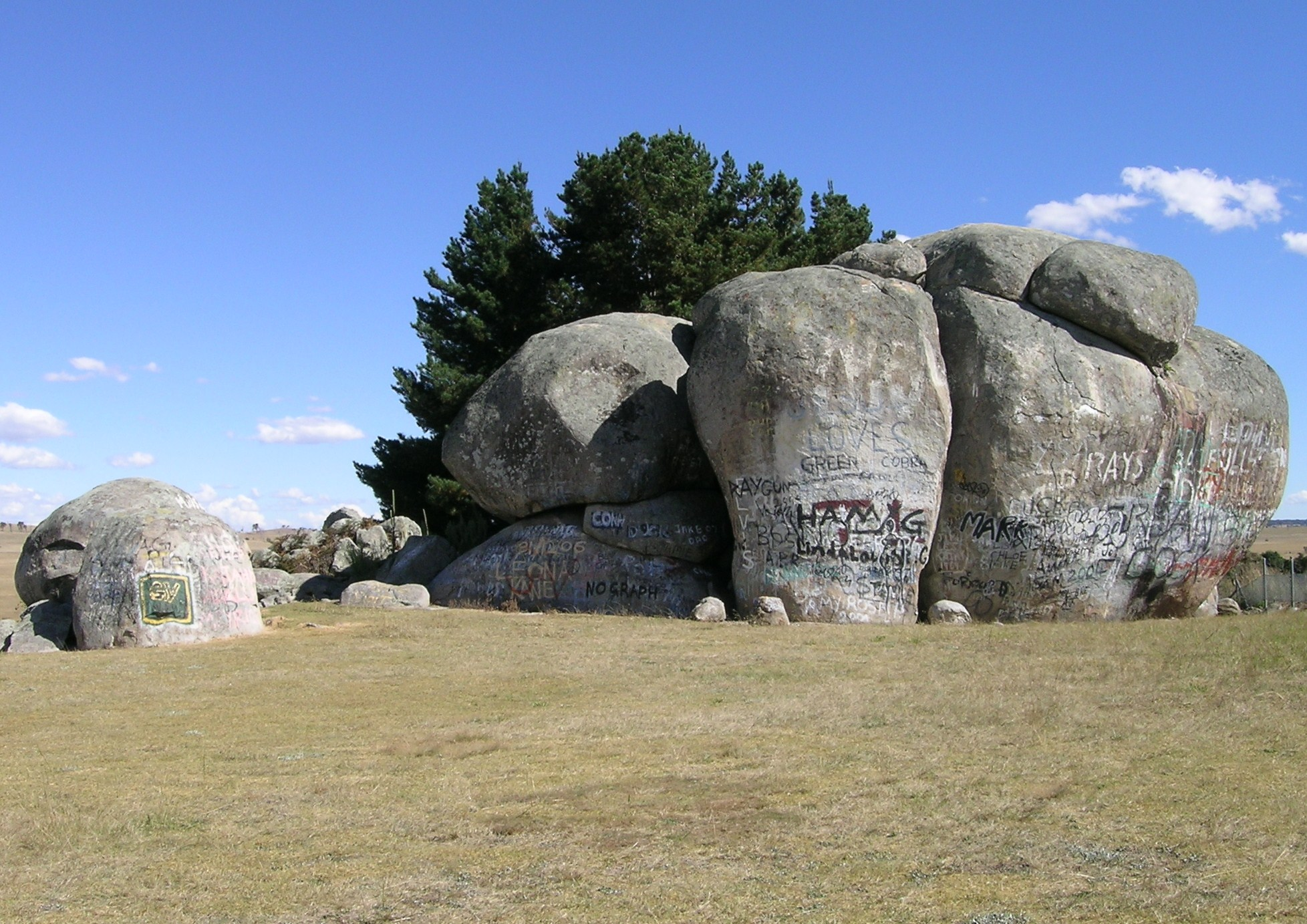 Thunderbolts Rocks, originally known as Split Rock this huge cluster of granite rocks was used by the bushranger, Fred Ward (Captain Thunderbolt) as a vantage point for detecting and robbing approaching mail coaches in the 1860's.